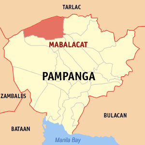 Map of Pampanga showing the location of Mabalacat